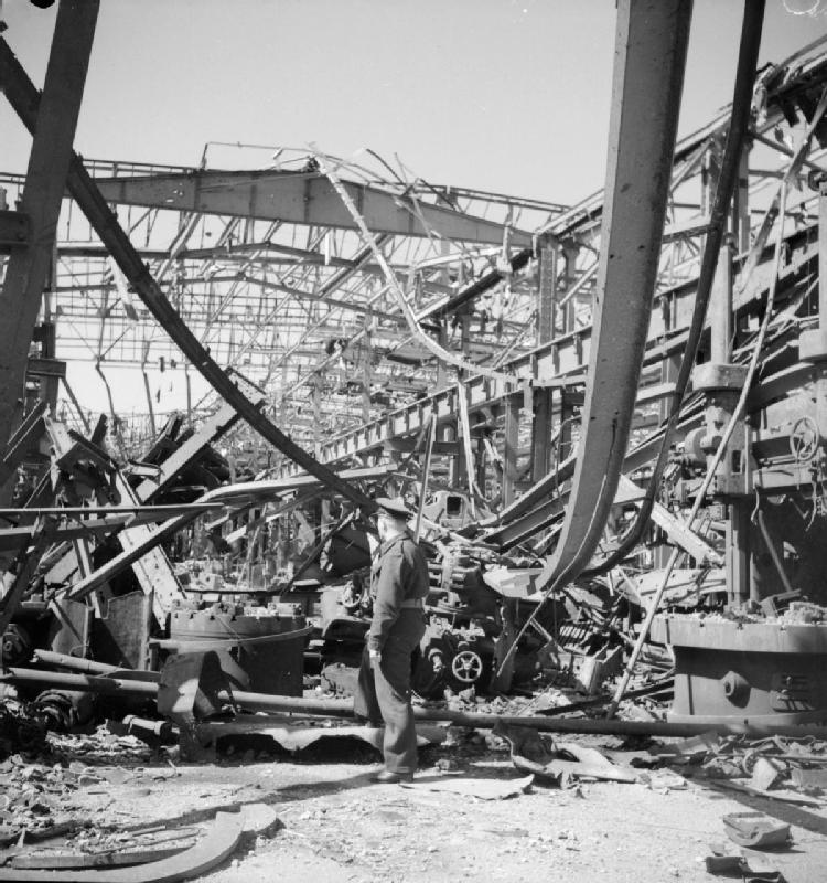 Royal Air Force Bomber Command, 1942-1945. An RAF officer surveys the wreckage of the machine tool shop of the Rheinmetall-Borsig AG arms factory at Derendorf, Dusseldorf, Germany, which was severely damaged during a raid by Bomber Command on the night of 2/3 November 1944.